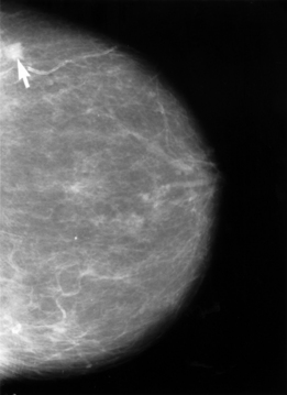 The arrow on this mammogram points to a small cancerous lesion. A lesion is an area of abnormal tissue change